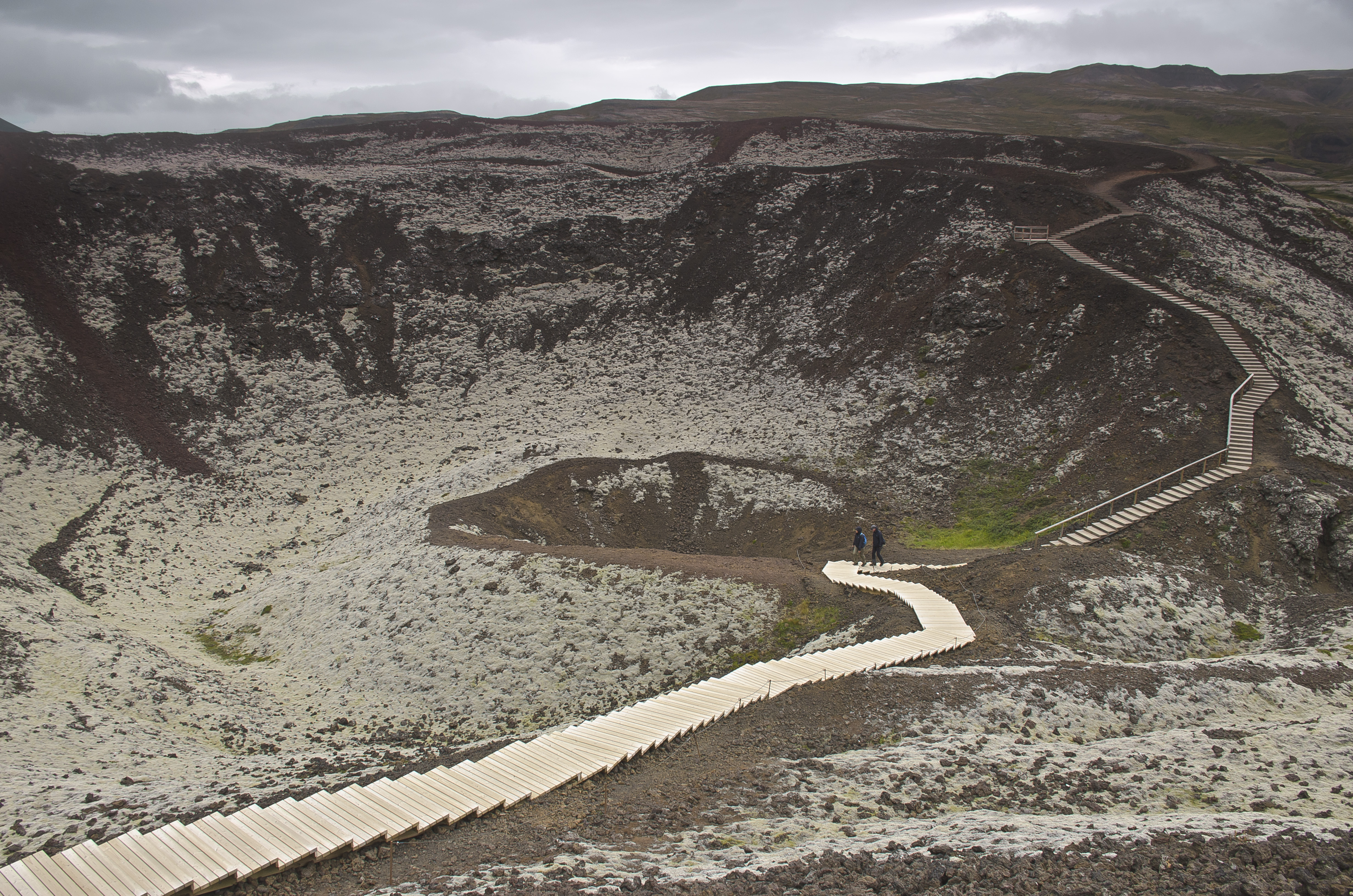 Grábrók crater, West Iceland